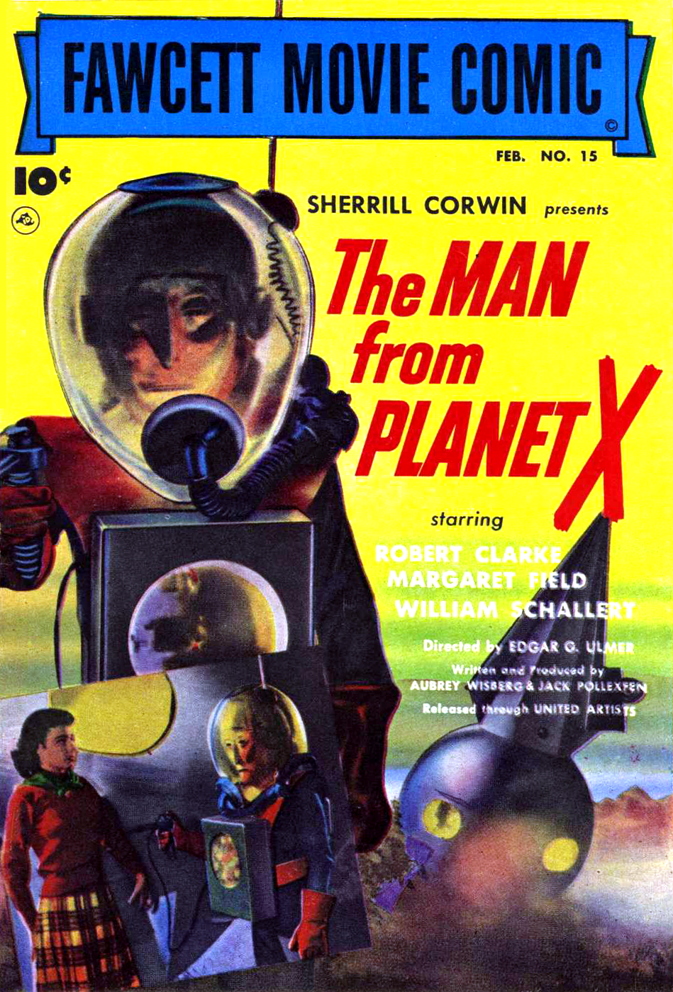 Front cover of Fawcett Comics's adaptation of The Man From Planet X (United Artists, 1951).